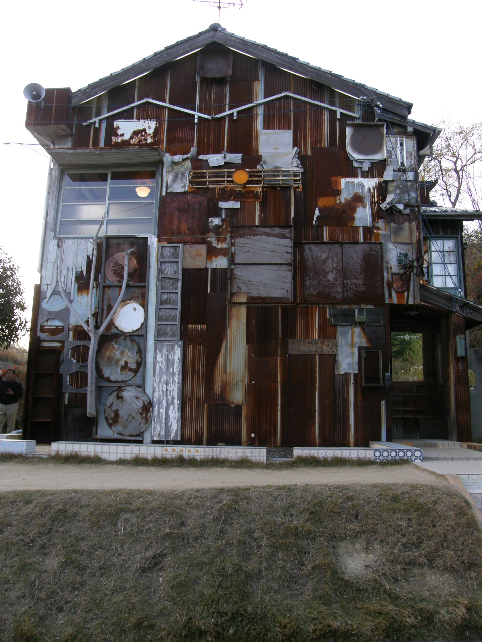 Art house project in Naoshima, Haisya